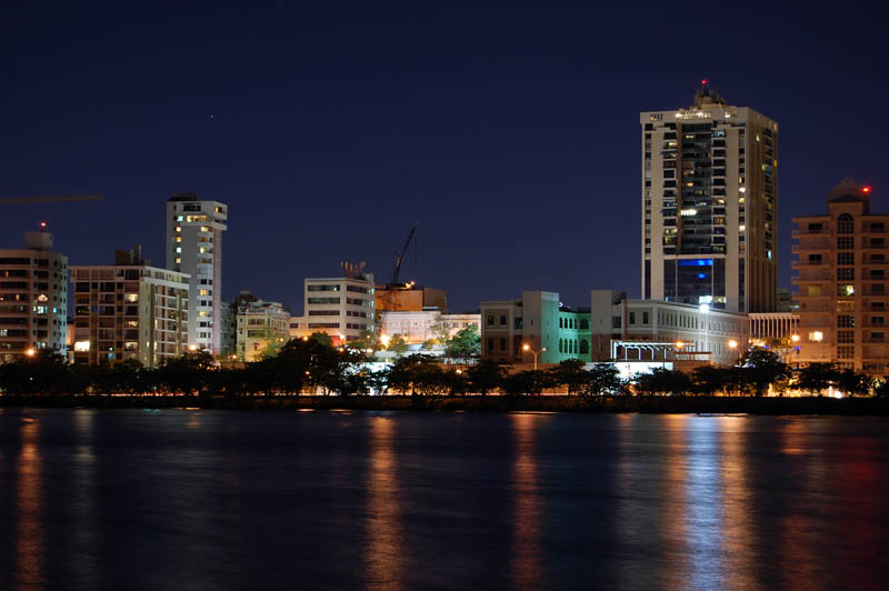 Condado Beach at night